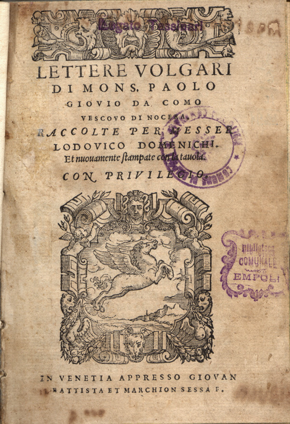 Title of the book Lettere volgari by Paolo Giovio[1]